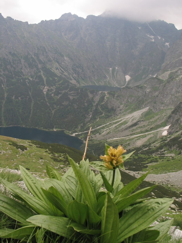 Gentiana punctata near Morskie Oko ans Czarny Staw in the High Tatra (Poland)